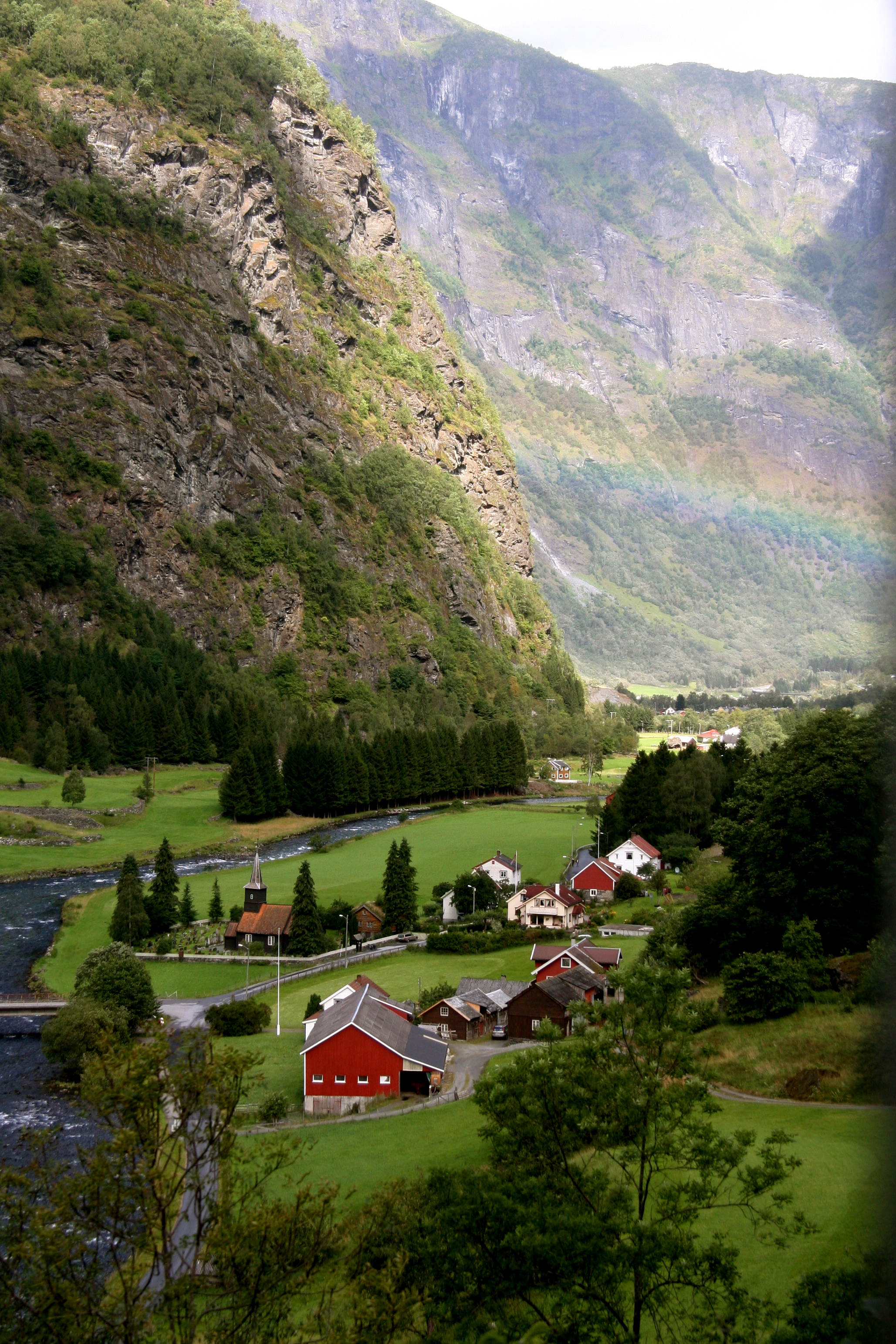 More 'out of the window' train views - this time on the Flåm Railway from Myrdal to Flåm.